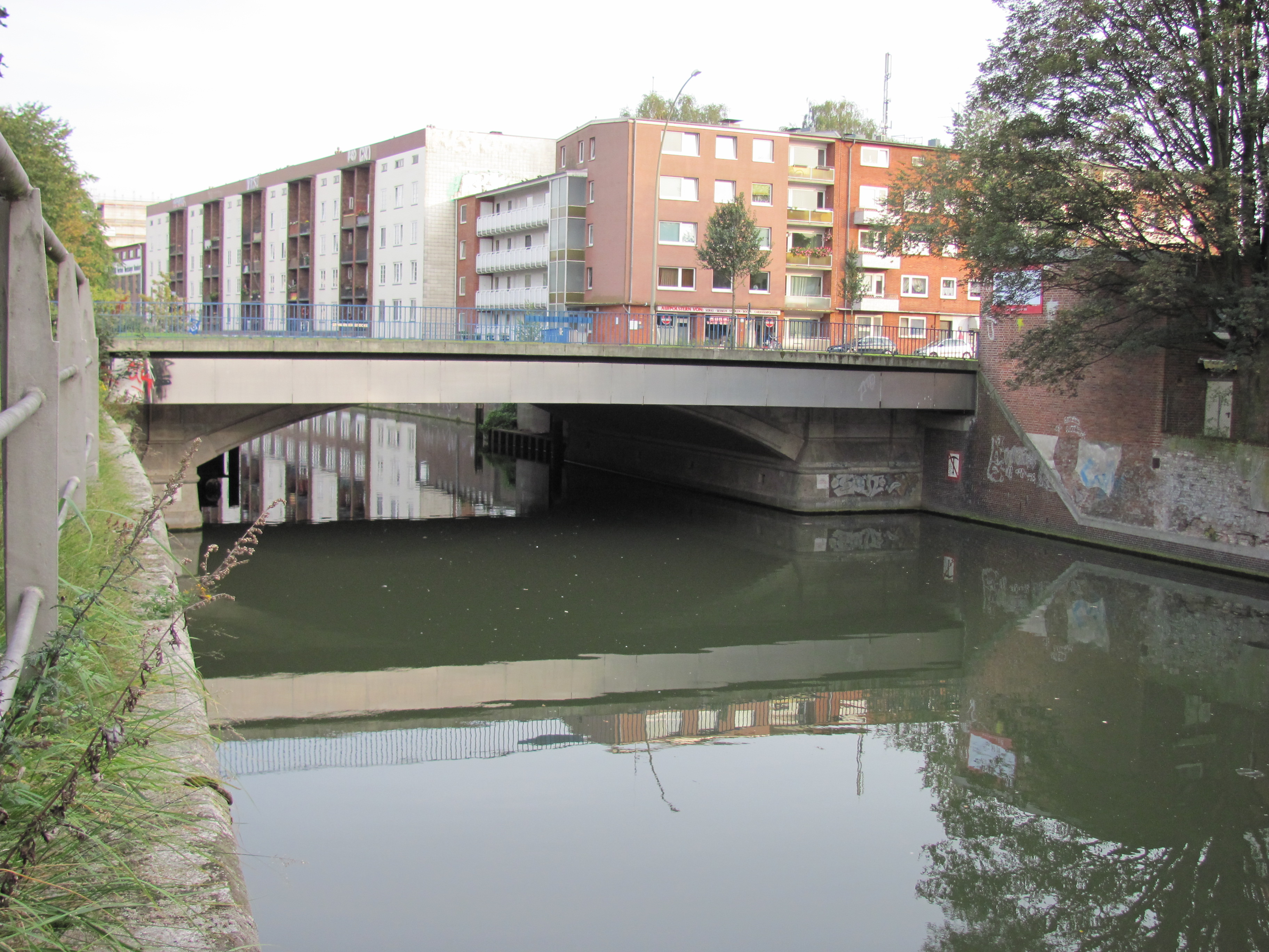 Bramfelder Brücke in Hamburg, Germany